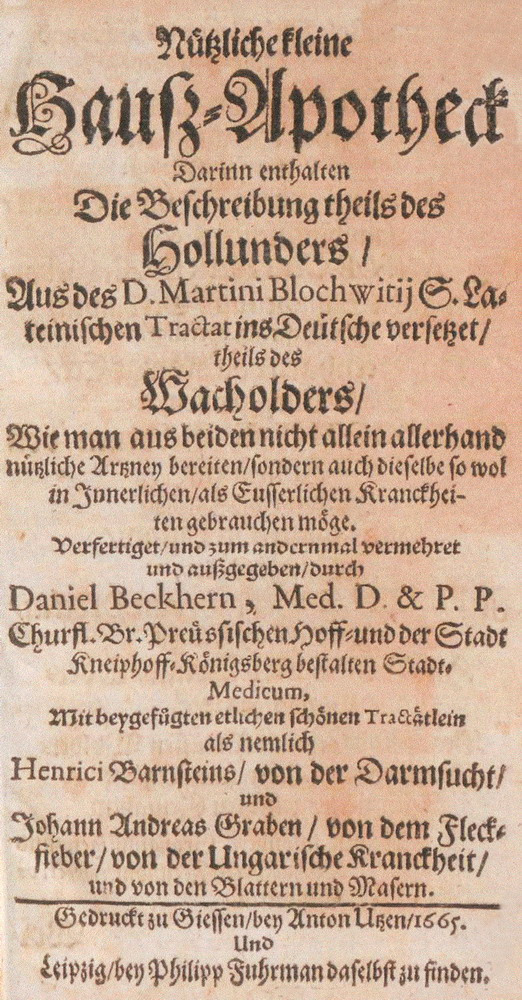 Cover "Nuetzliche kleine Hausapotheke"